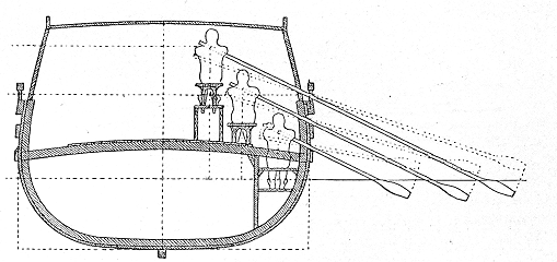 Drawing of a trireme from the book : Baumeister: Denkmäler des klassischen Altertums. 1888. Band III., page 1631 This drawing made by Lemaitre in 1883 is an old-fashioned view of how may have been a trireme : Oars of different length ; Oarsmen placed from the higher to the lower levels from in to out ; The parexérésiai are missing.